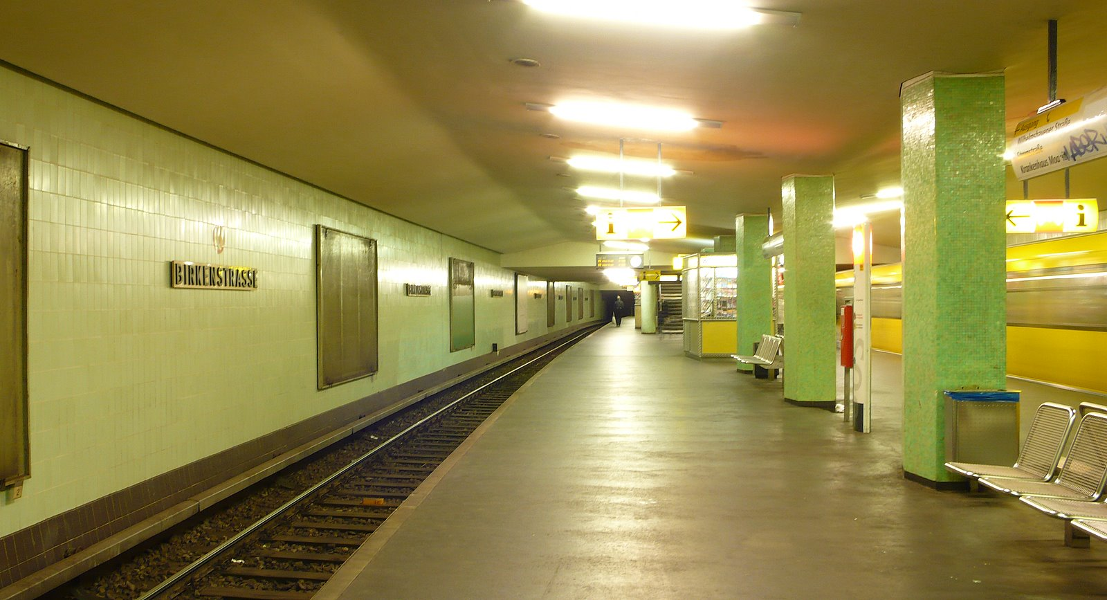 Subway Birkenstr. Berlin